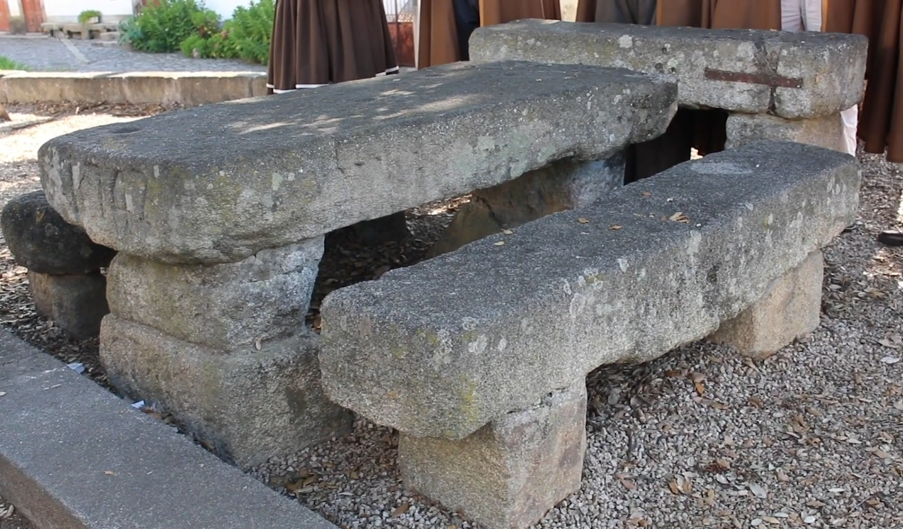 The Audience Stone (Pedra da Audiência) in the town of Avintes, Vila Nova de Gaia, Portugal.